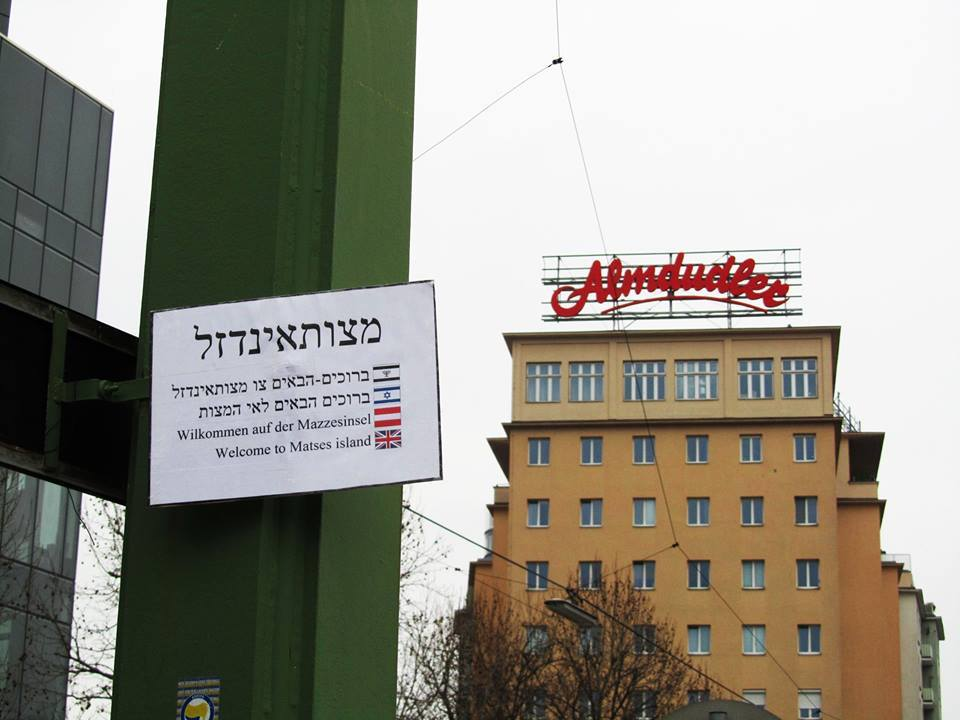 Matses Island in Vienna (II. district)